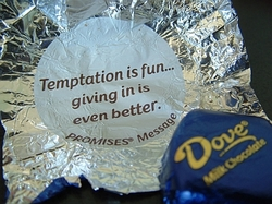 Dove Promises